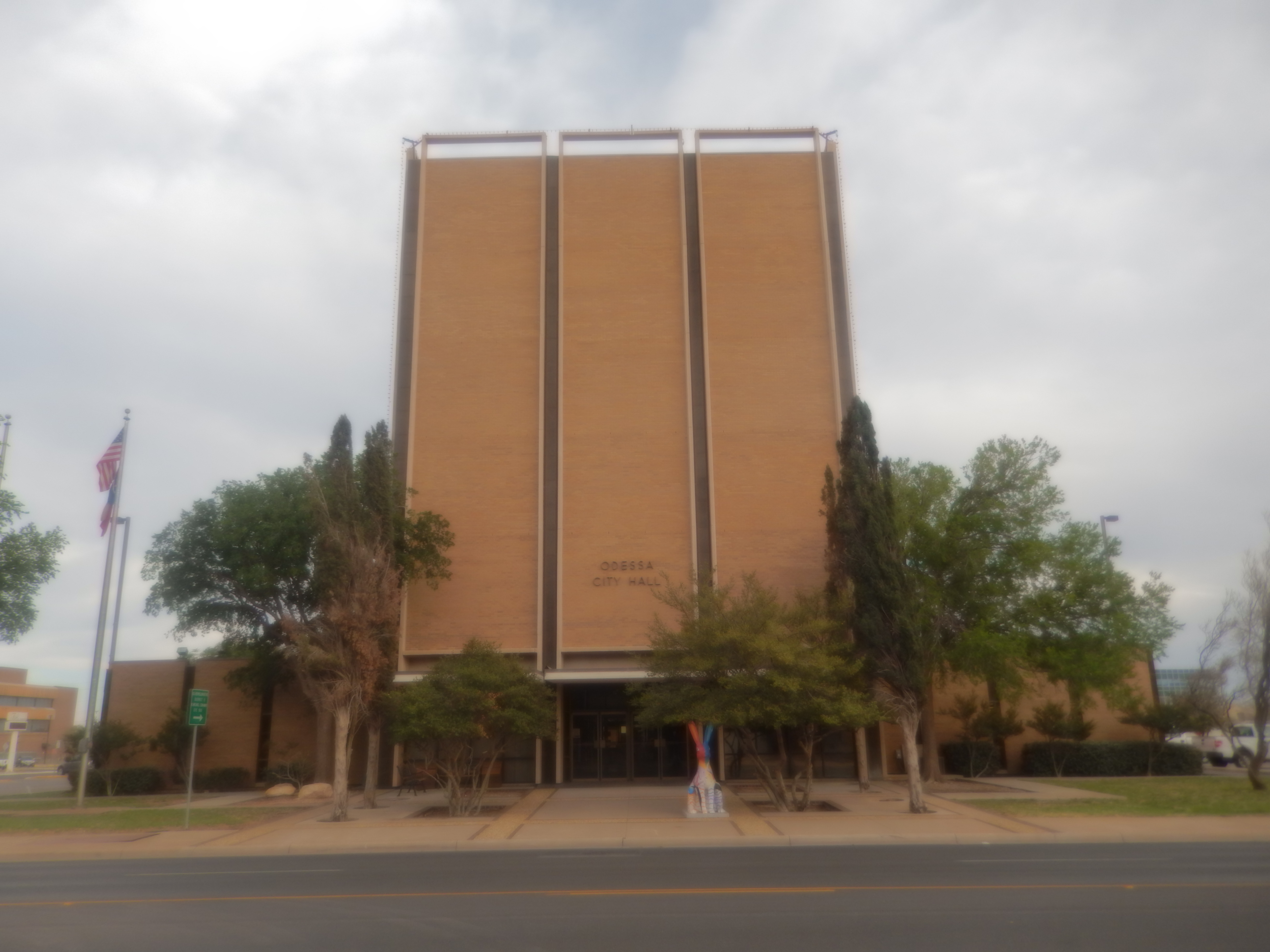 I took photo of Odessa, TX, City Hall with Nikon camera.